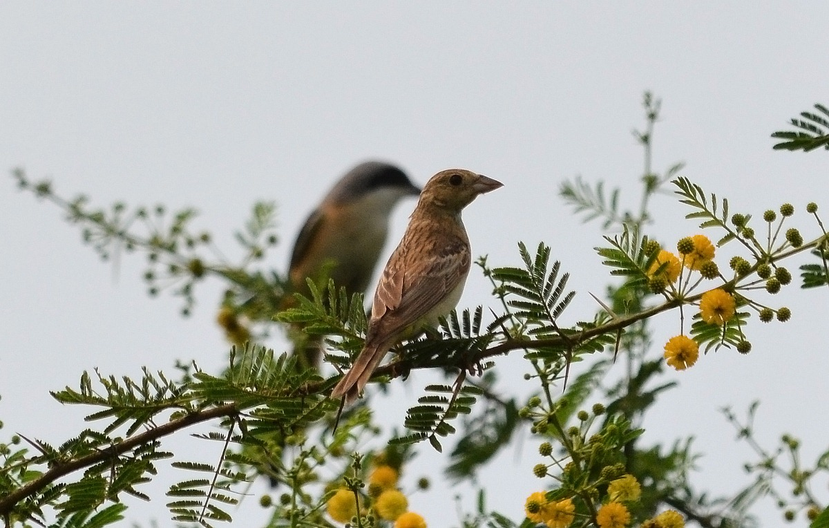 Black-headed Bunting Emberiza melanocephala female by Dr. Raju Kasambe. Photo taken at Thane district, Maharashtra, india.